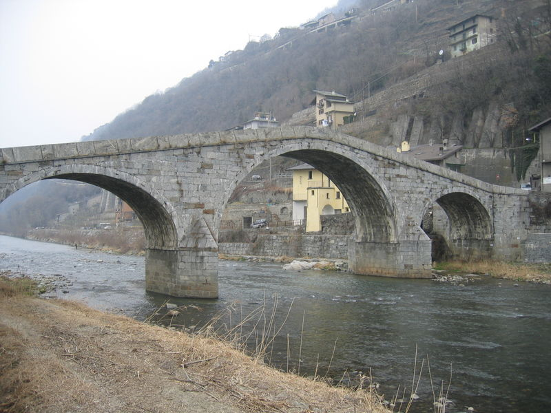 Ganda's Bridge in Morbegno Picture taken and edited by user:Pdn march 2006